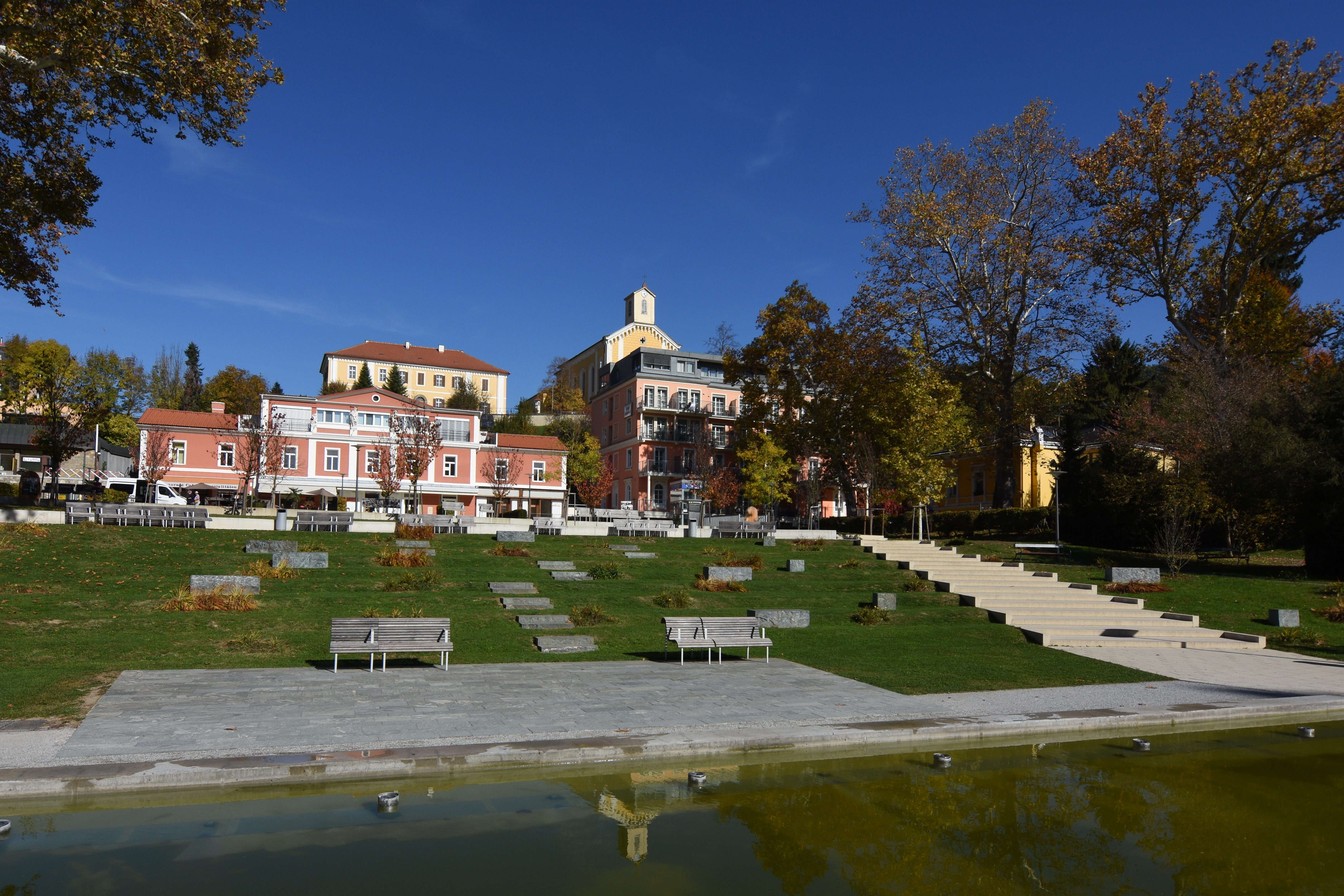 Bad Gleichenberg